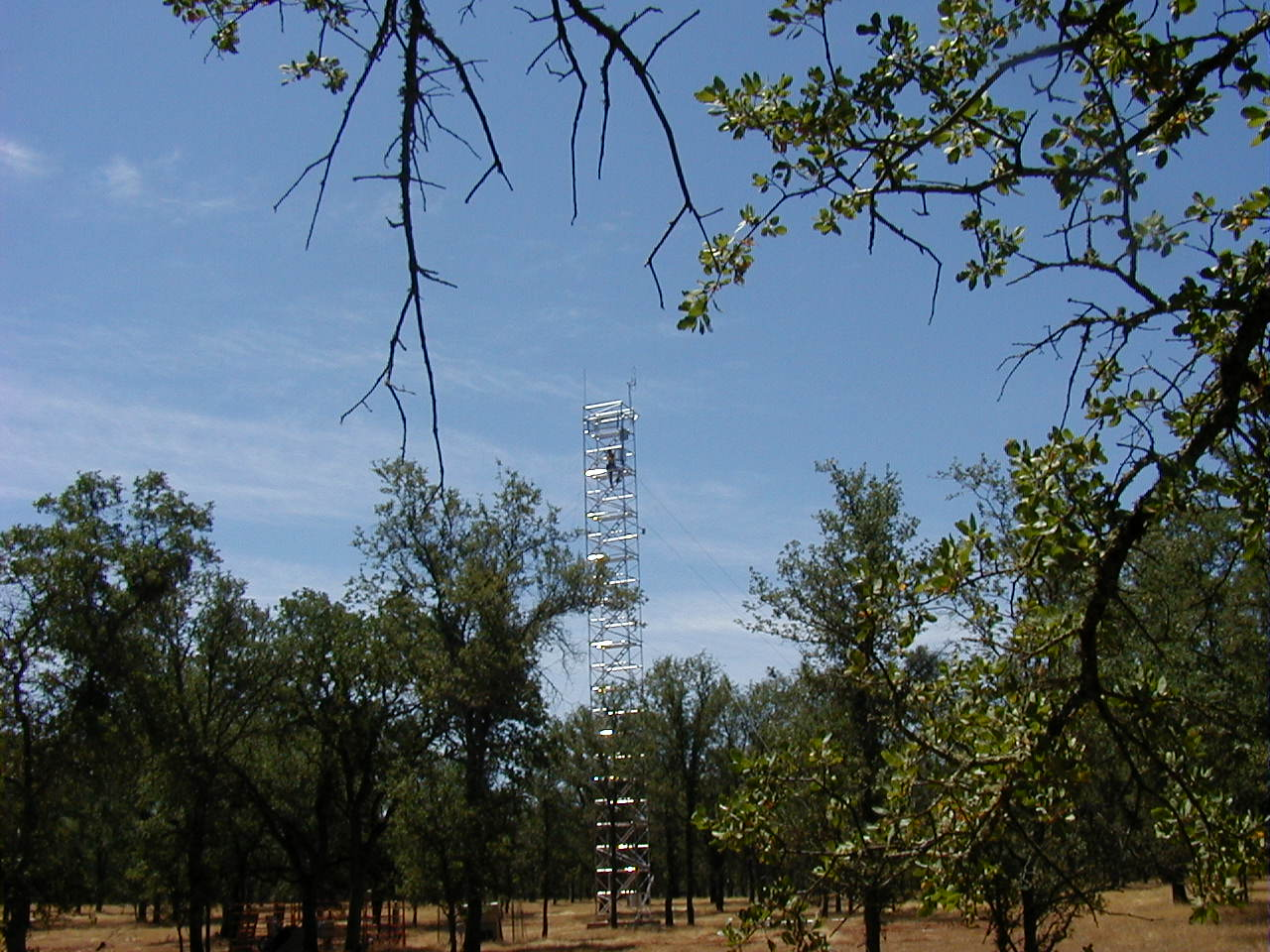 The Fluxnet project checks instrumentation at the Tonzi Ranch site